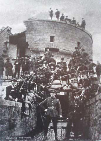 Free state troops capture Millmount in Drogheda during the Civil war